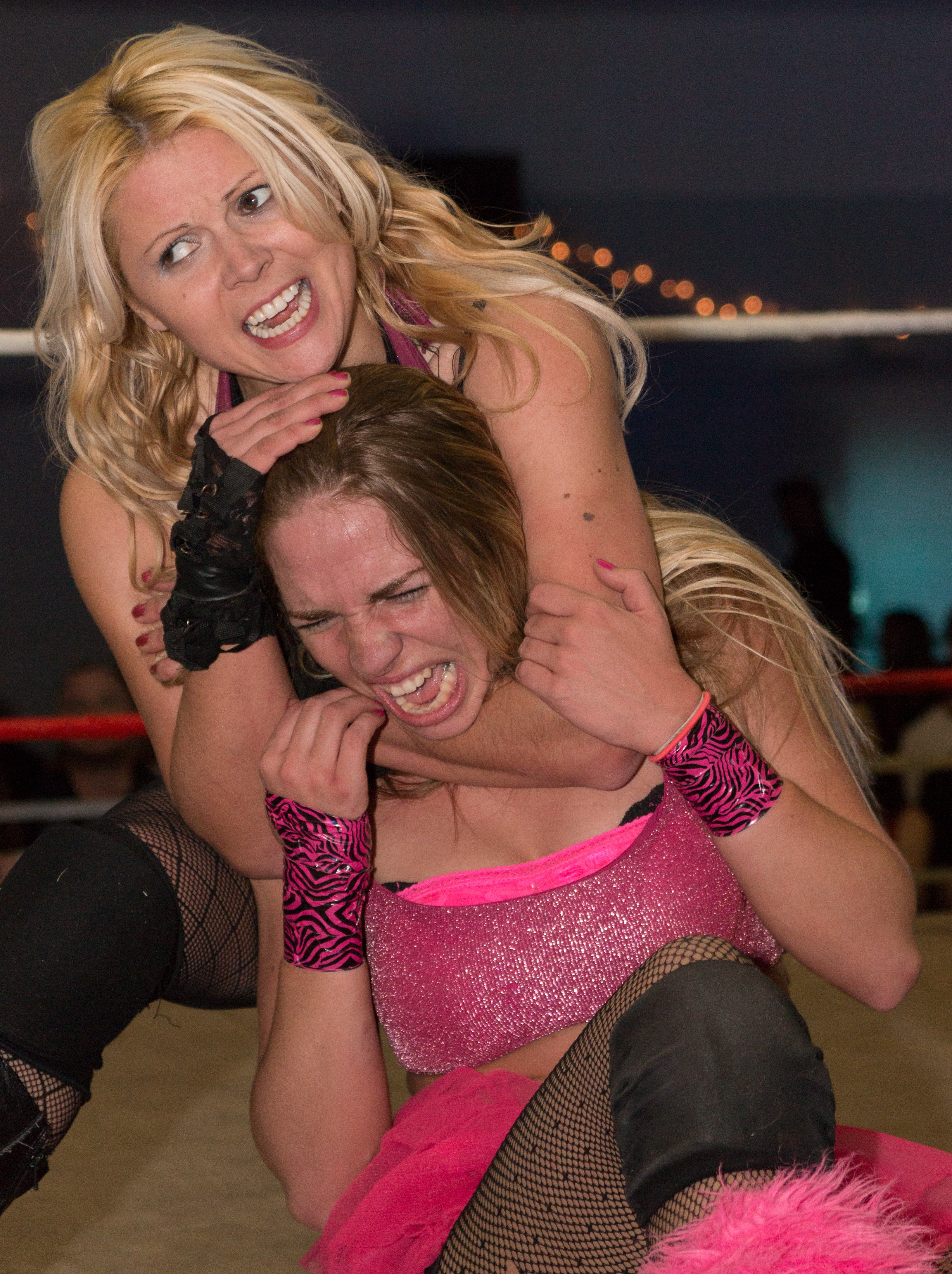 Wrestler Jewells Malone (at top) has Beautiful Beaa in a sleeper hold